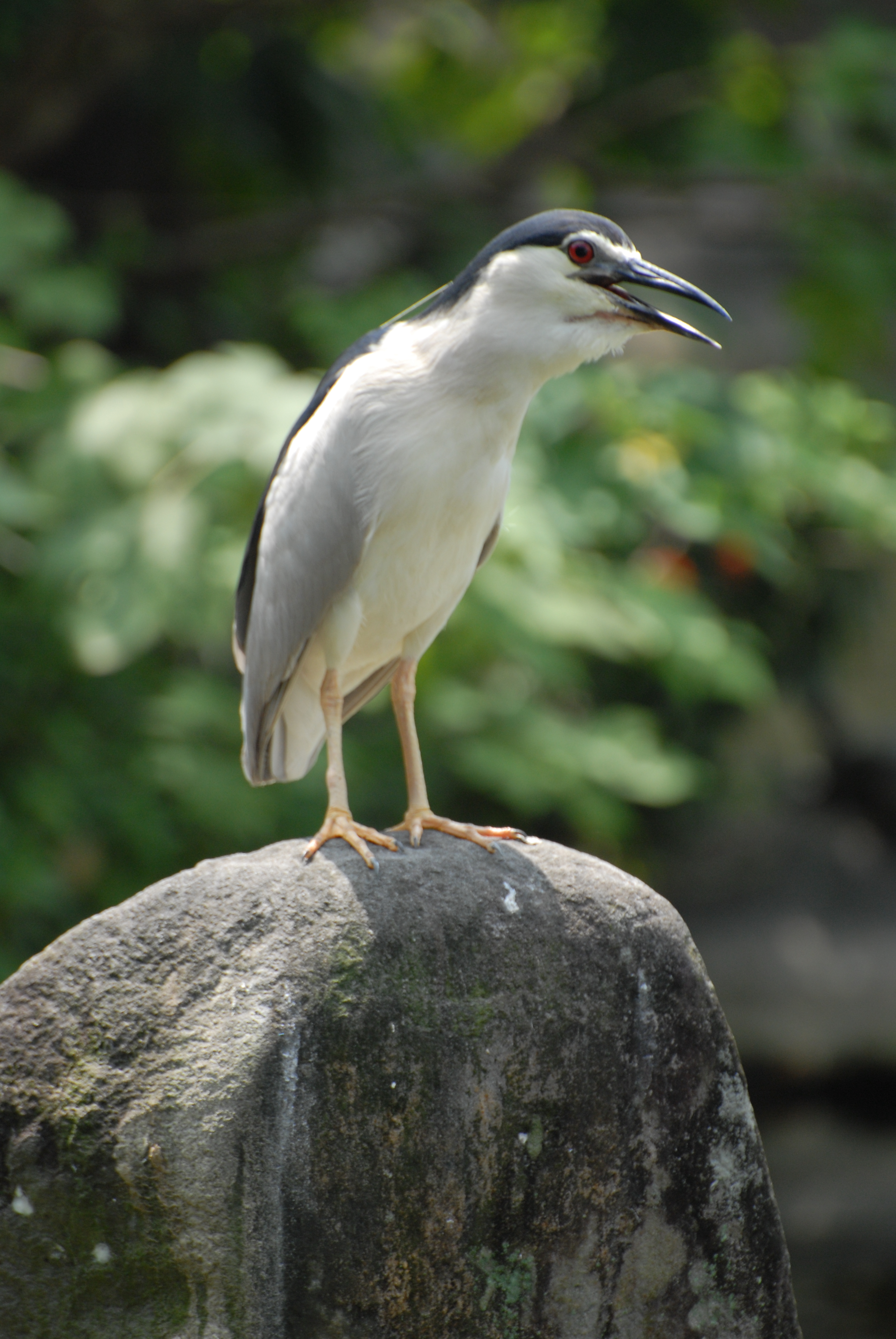 A Black-crowned Night Heron in the park surrounding Chiang Kai-shek Memorial Hall in Taipei, Taiwan, R.O.C..